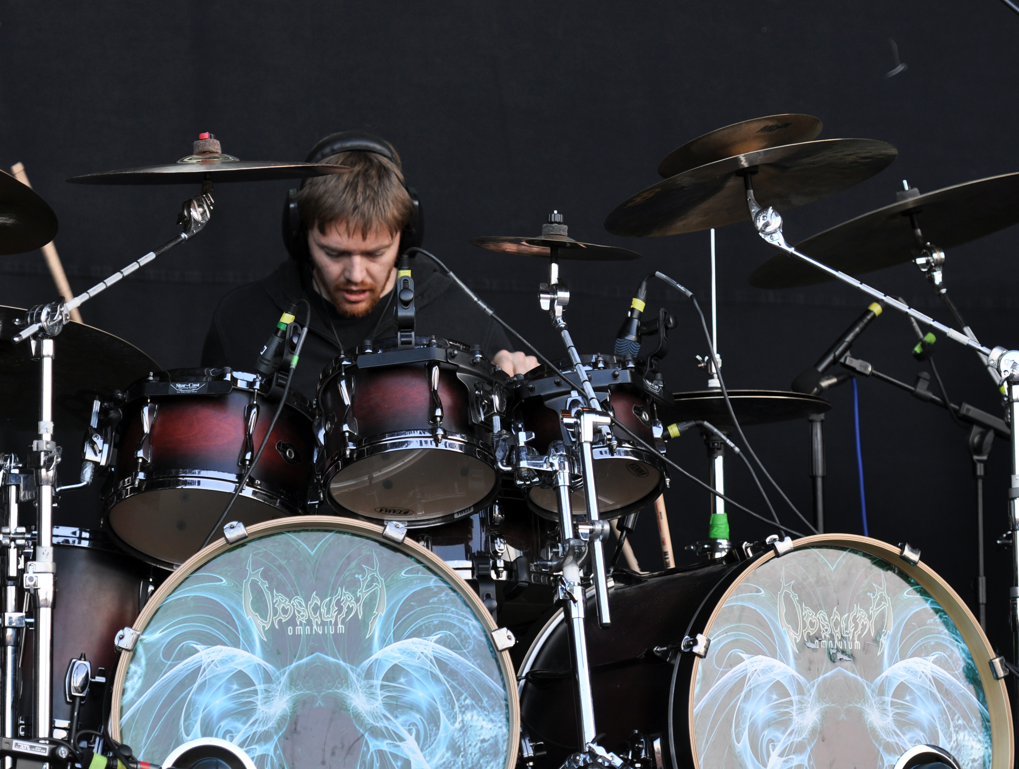 Obscura at Party.San Metal Open Air 2013